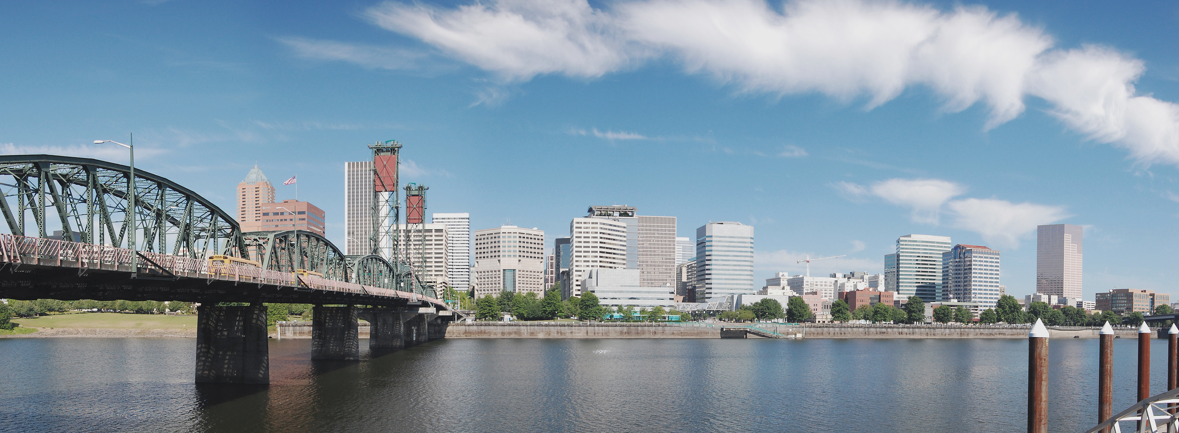 The skyline of Portland, Oregon looking west from the Hawthorne Bridge. By User:Fcb981